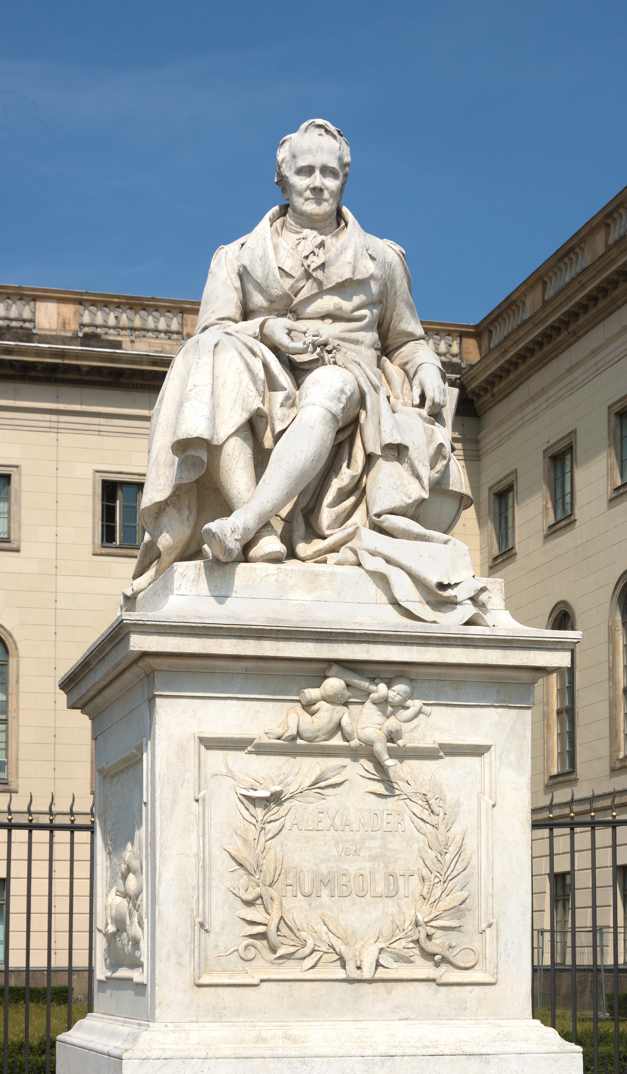 Alexander von Humboldt statue. In the background the main building of the Humboldt-University of Berlin.